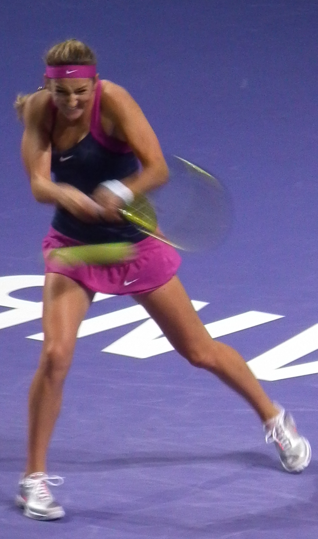 Victoria Azarenka at WTA Istanbul 2011